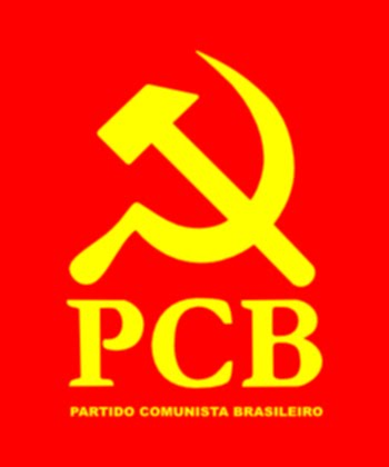 Logo of Brazilian Communist Party